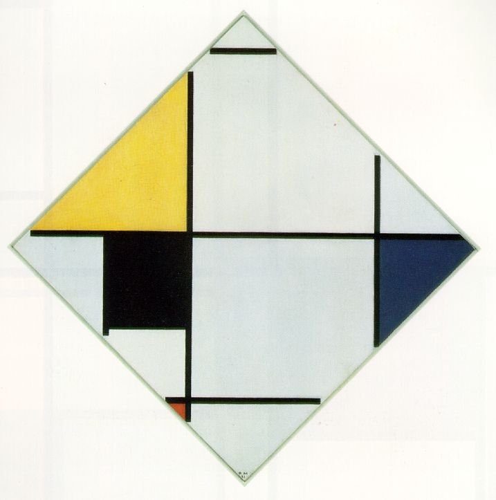 Piet Mondrian: Lozenge Composition with Yellow, Black, Blue, Red, and Gray, 1921. Oil on canvas. 60.1 x 60.1 cm (23 5/8 x 23 5/8 in). Vertical axis 84.5 cm (33 1/4 in). The Art Institute of Chicago